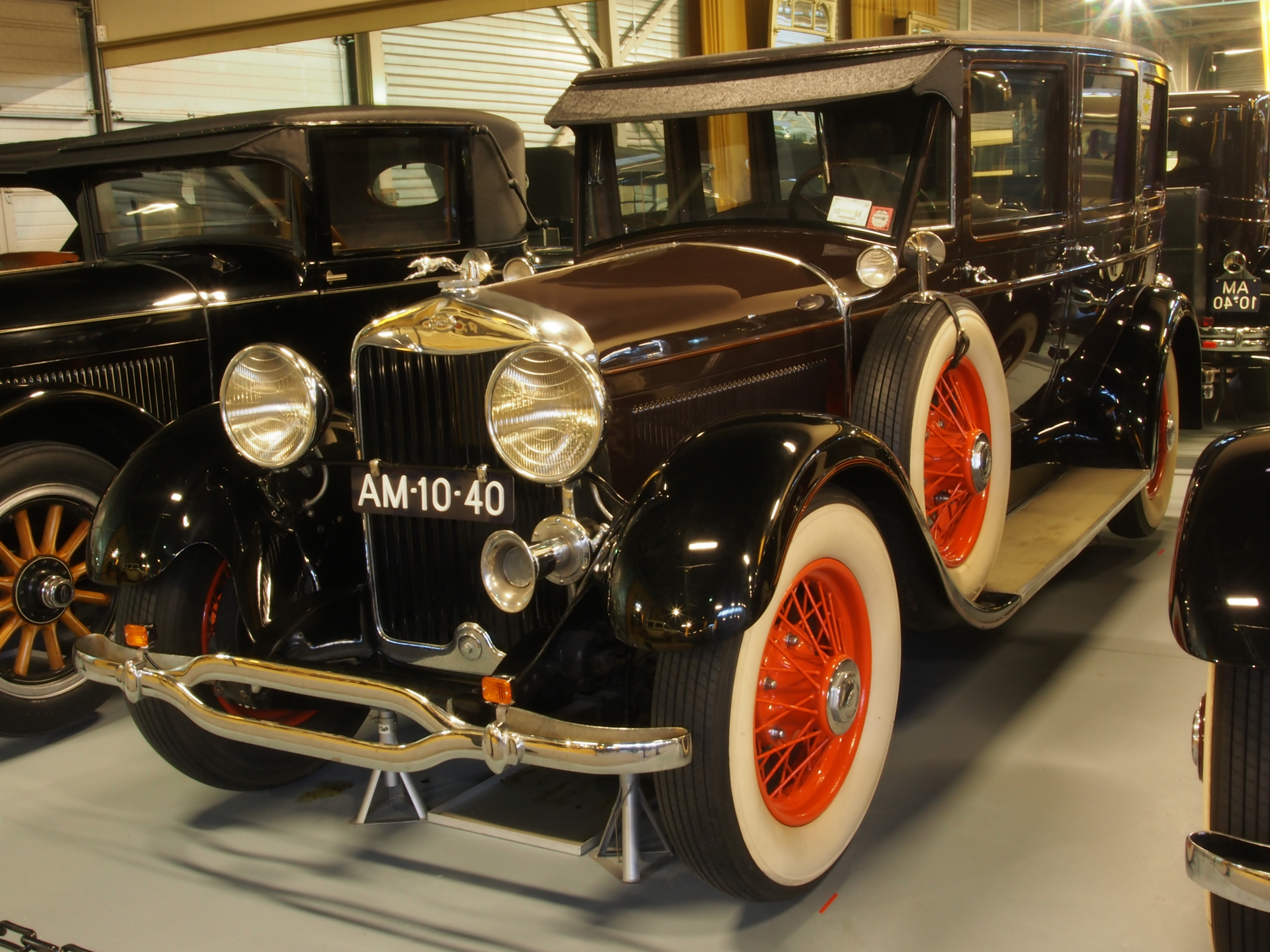 Lincoln Model L Judkins Berline (Limousine) Style #172C (1929). Photographed at the Den Hartogh Ford museum.